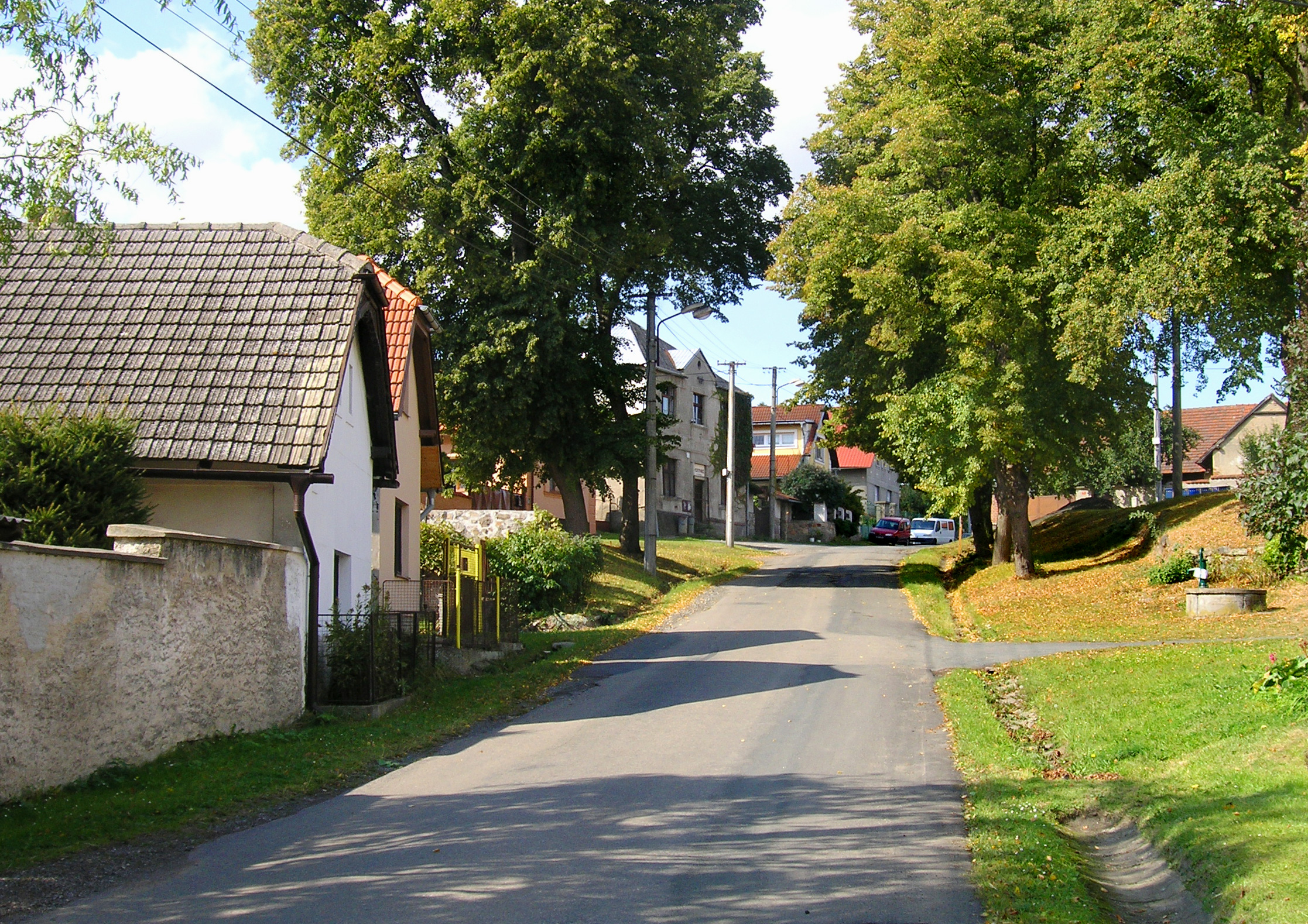 South part of Štíhlice, Czech Republic